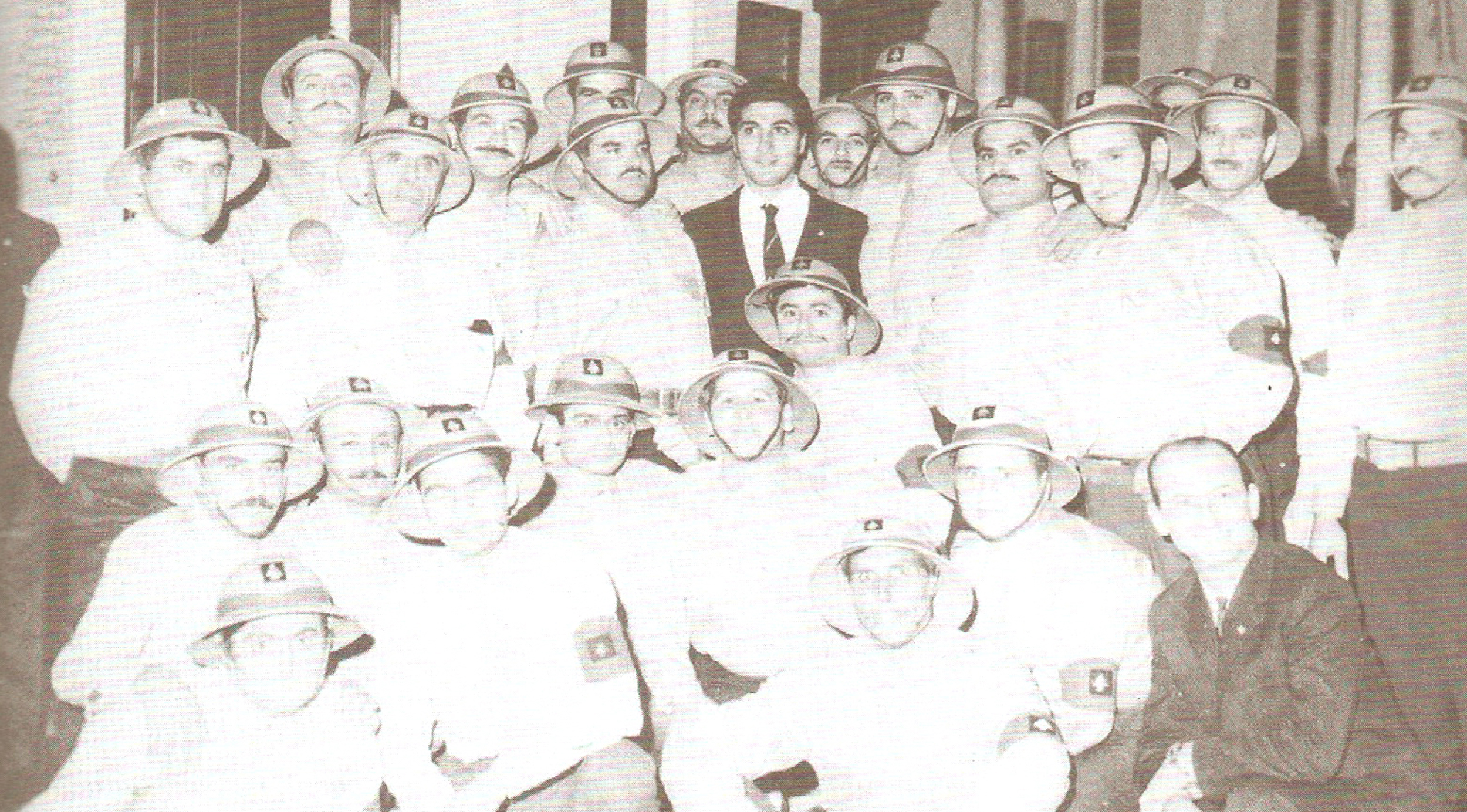 Bachir With Kataeb Forces